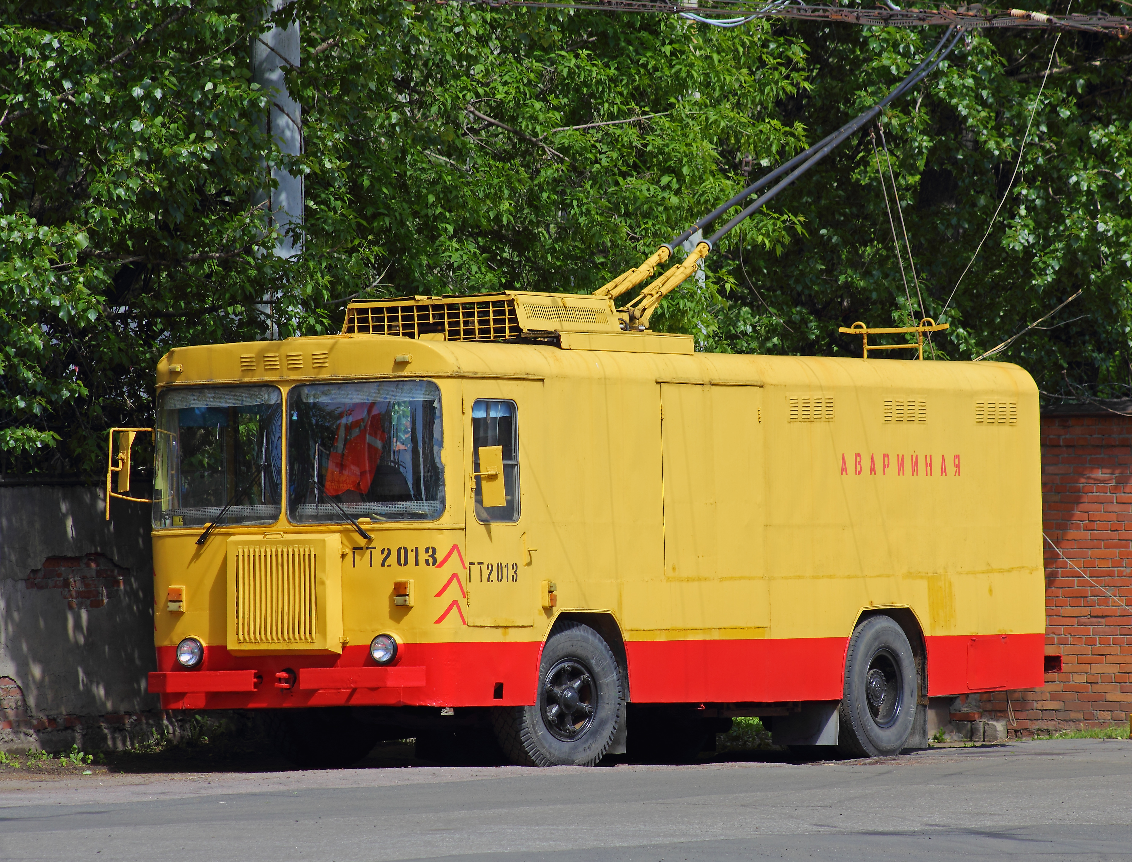 St. Petersburg, Russia. A freight trolley (used for technical service) in the trolleybus depot number 2 at Arsenalnaya Street.